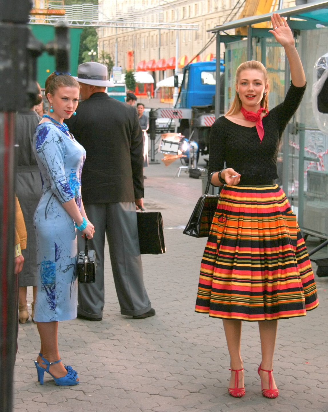 Oksana Akinshina on Independence avenue, Minsk (production of "Stilyagi")